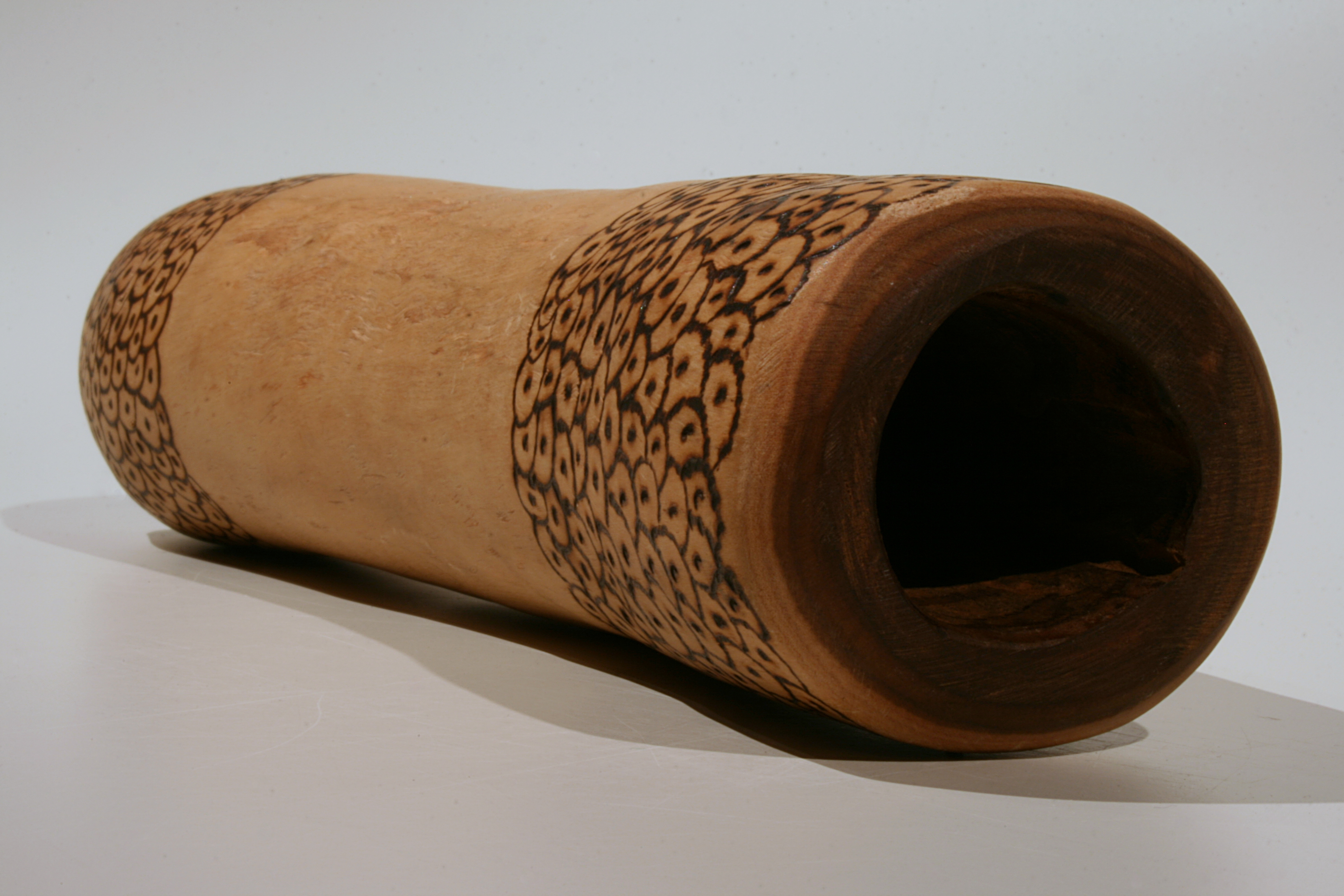 Aboriginal emu caller on exhibit at the Australian Museum, Sydney, NSW, Australia.